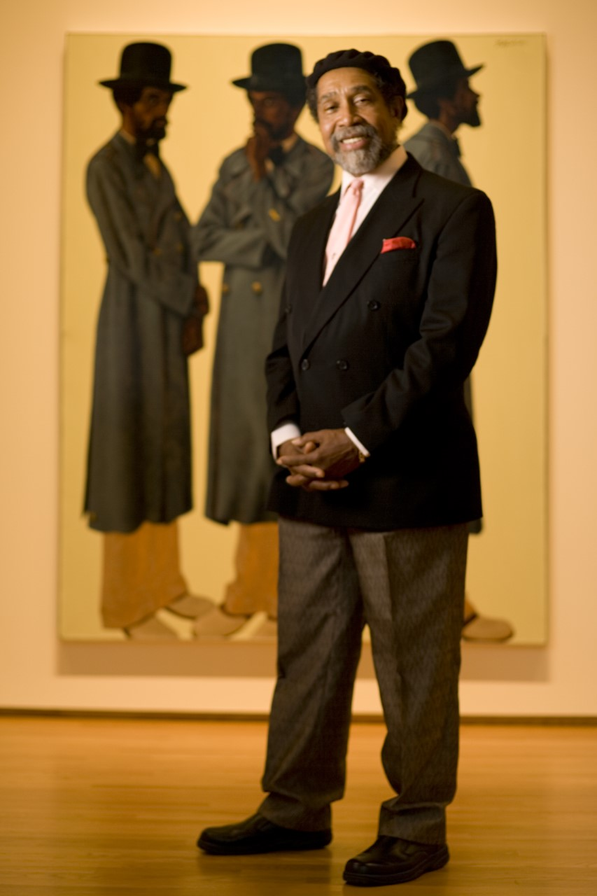 Barkley L. Hendricks strikes a pose in front of “Bahsir (Robert Gowens),” an oil and acrylic on canvas that he made in 1975, in 2013. The work is part of the collection of the Nasher Museum of Art at Duke University. Photo by Duke Photography.